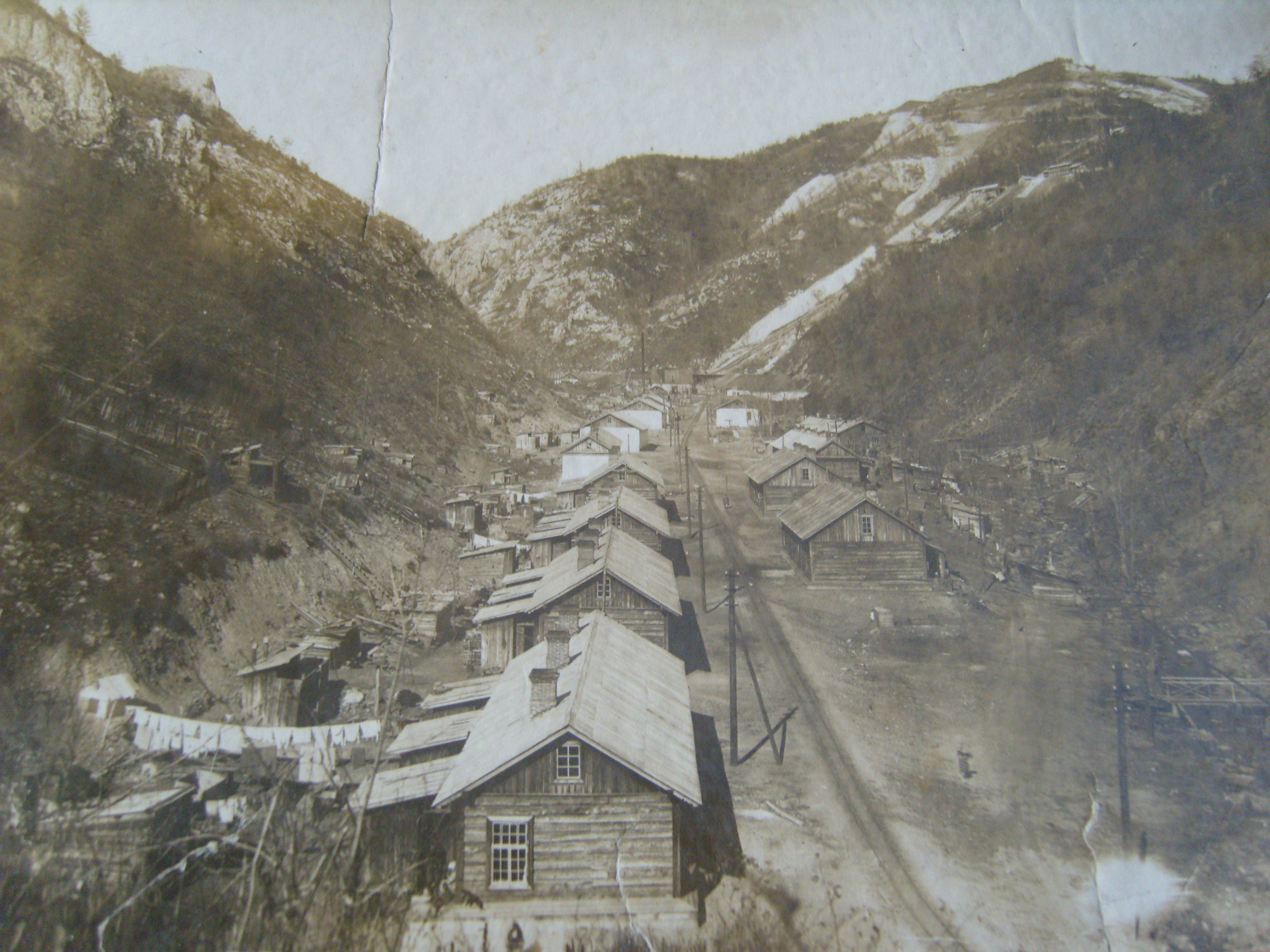 Tetyukhe in Primorsky region, Russia